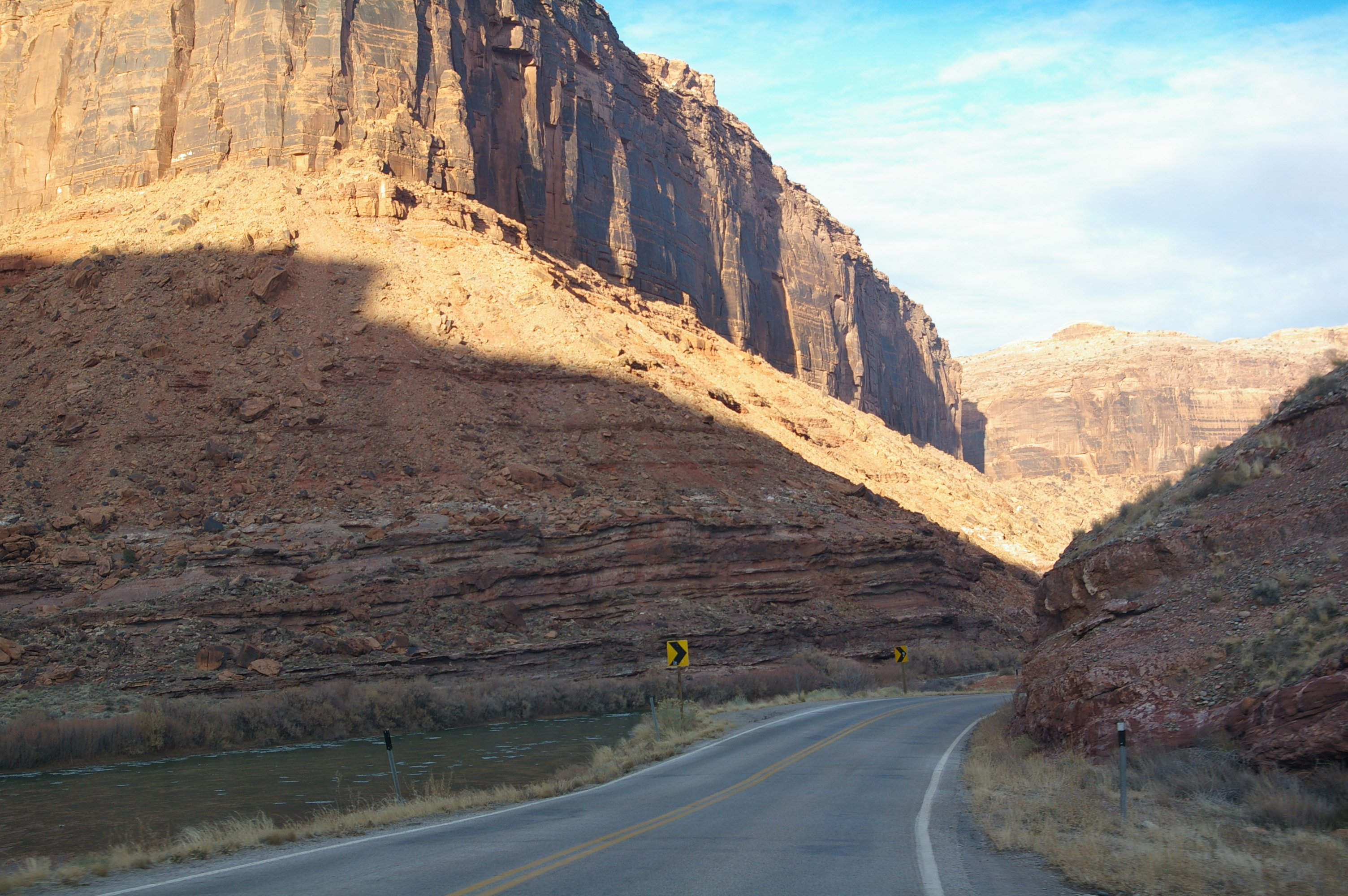 Blind curve along Utah State Route 128 with its precipitous lack of shoulder.